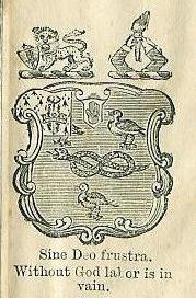 Coat of Arms of the Baronetcy of Brook Street, created in the Baronetage of the United Kingdom on 6th February 1872